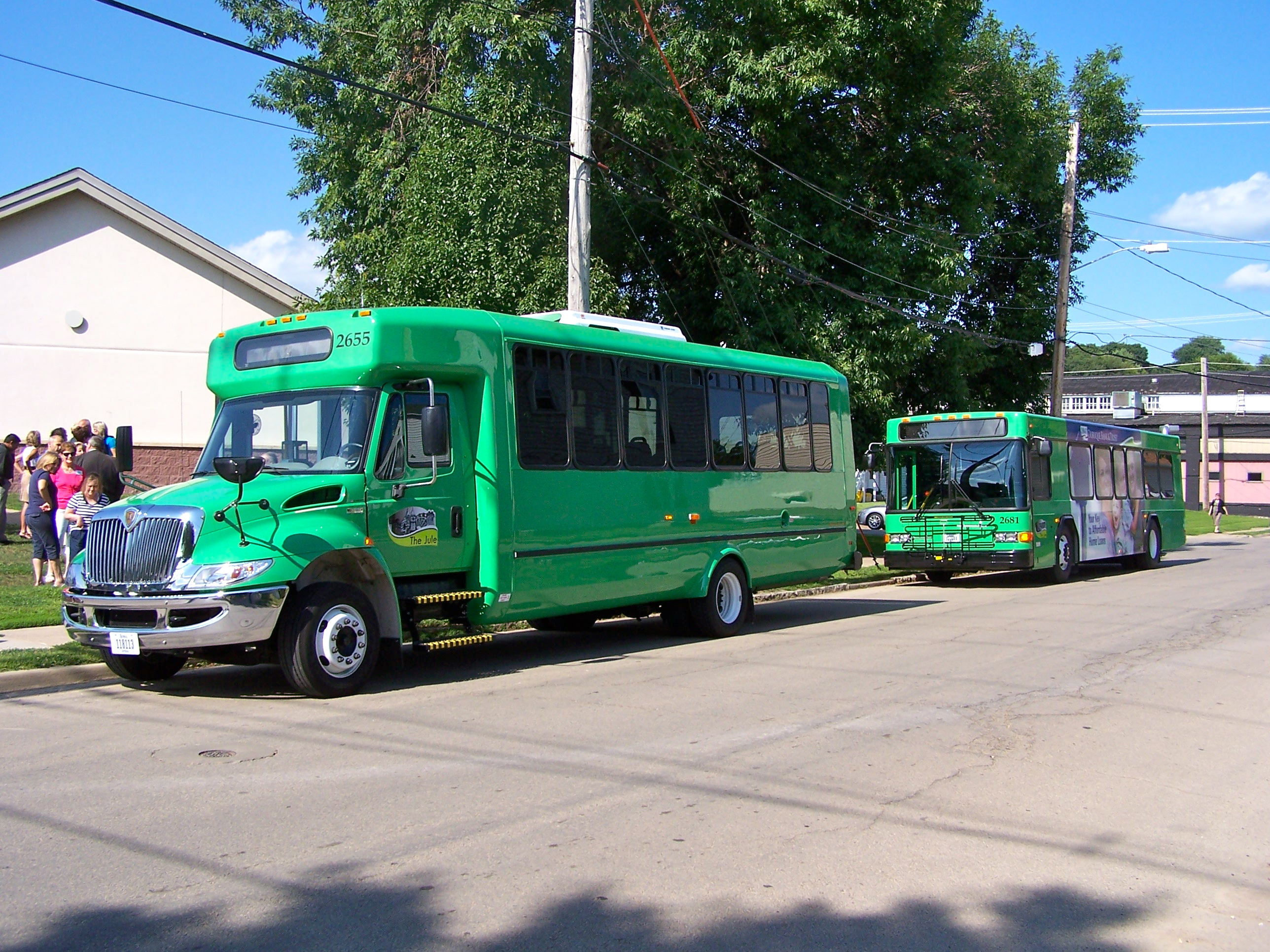 Medium and Heavy duty buses of the Jule